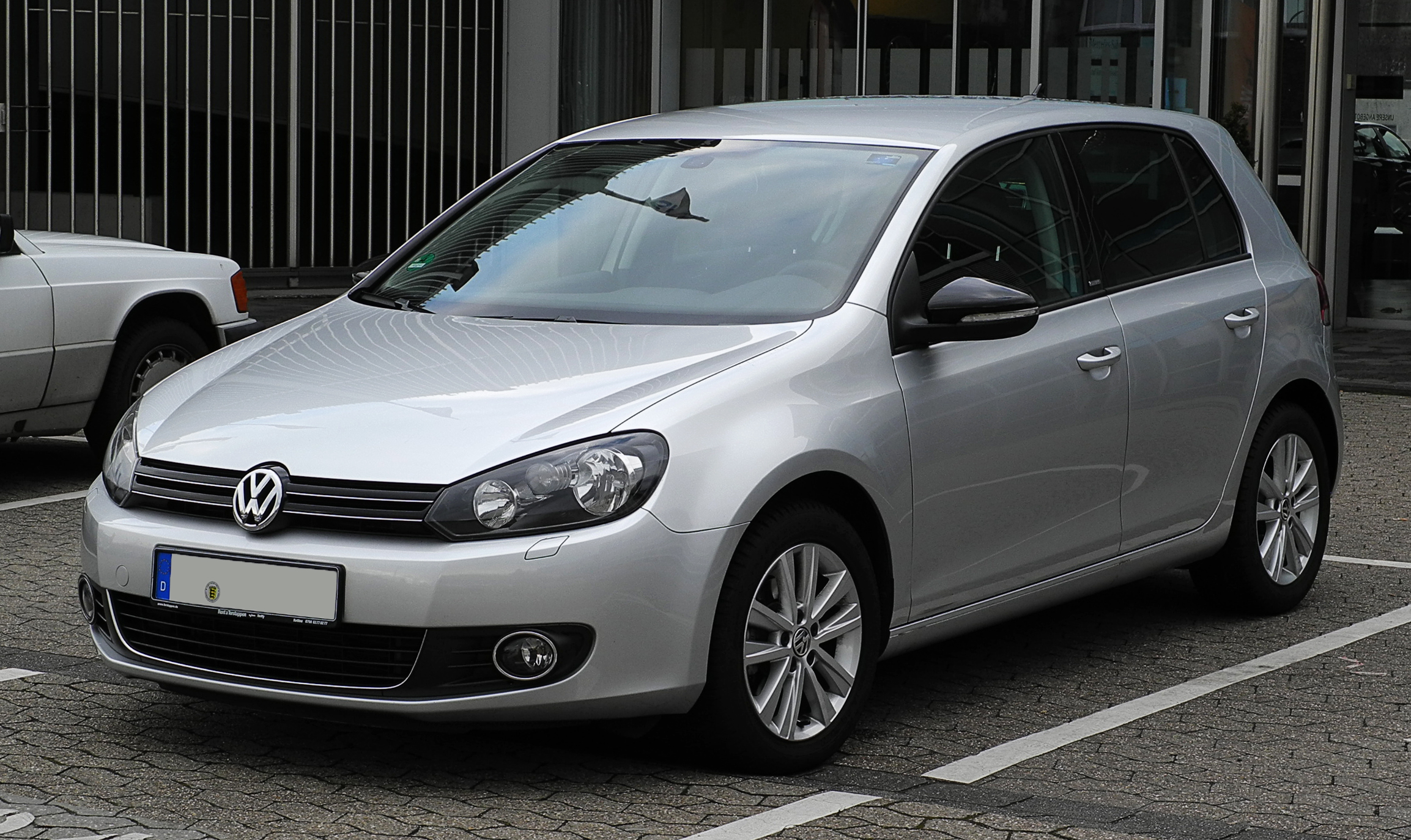 VW Golf 1.6 TDI Style (VI)